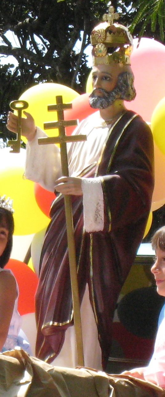 Patron saint of San Juan de Santa Bárbara de Heredia during parade